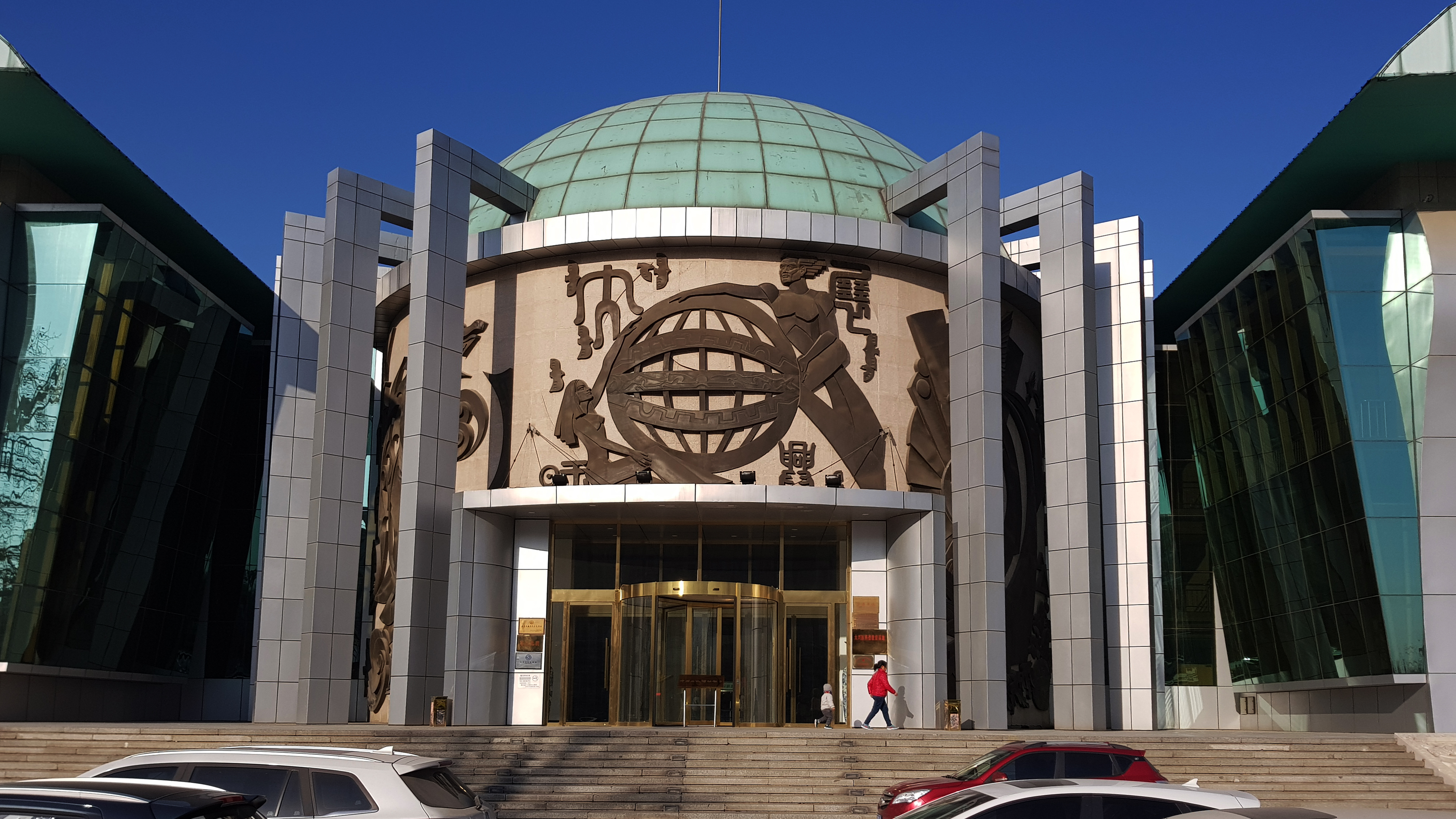 Beijing Museum of Watermelon